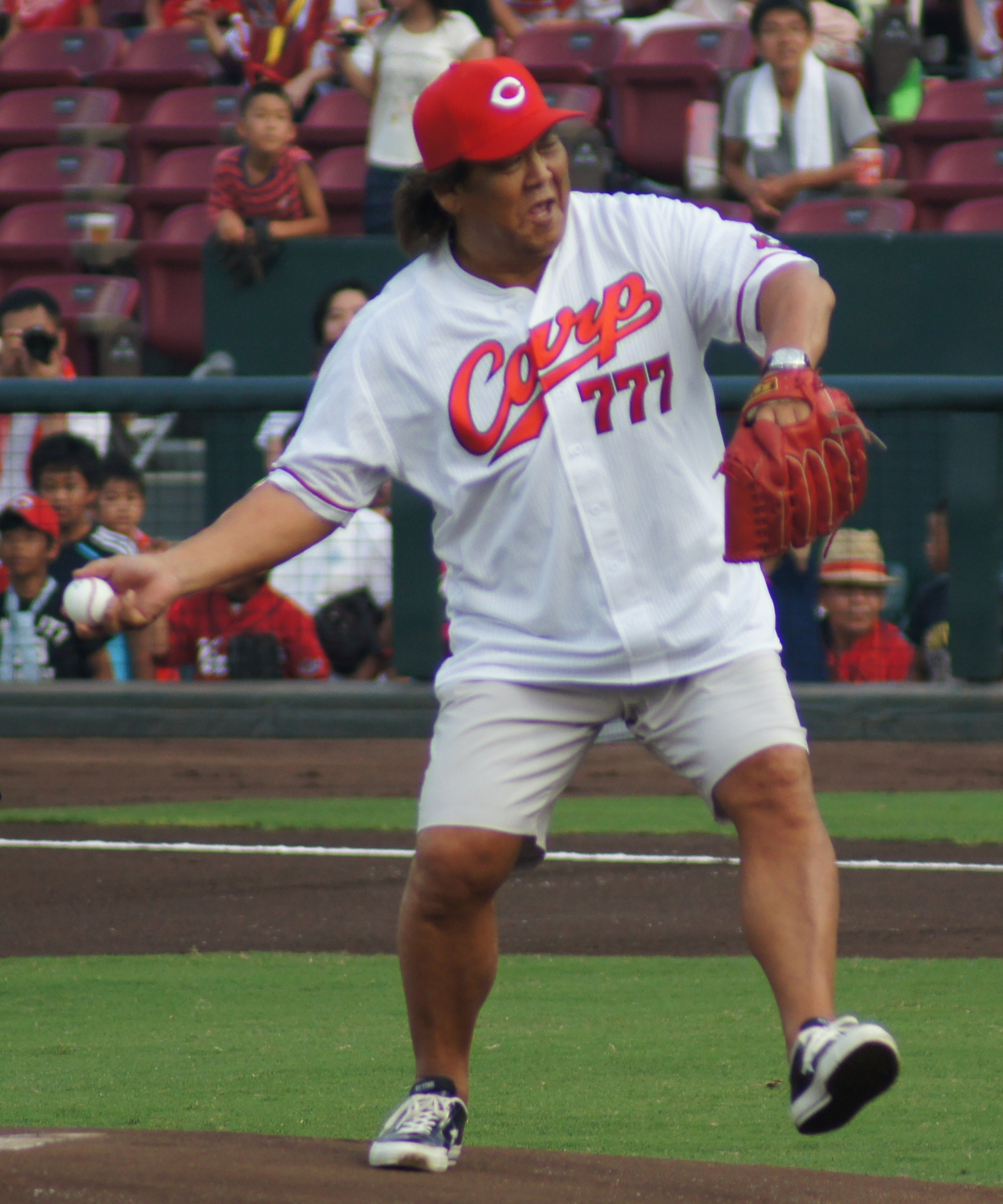 Riki Chōshū, professional wrestler, at MAZDA Zoom-Zoom Stadium Hiroshima.